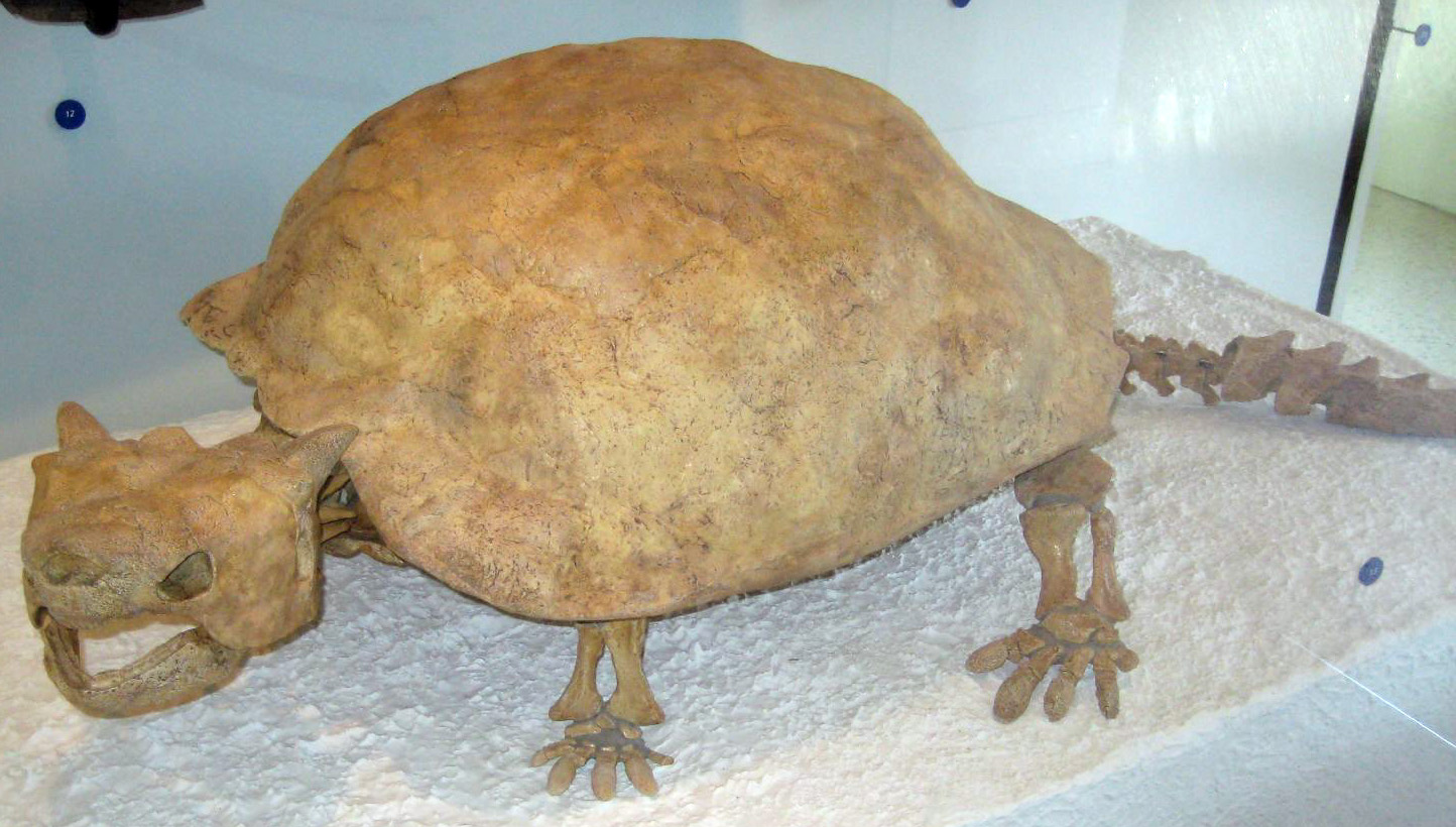 Meiolania Platyceps skeleton, American Museum of Natural History